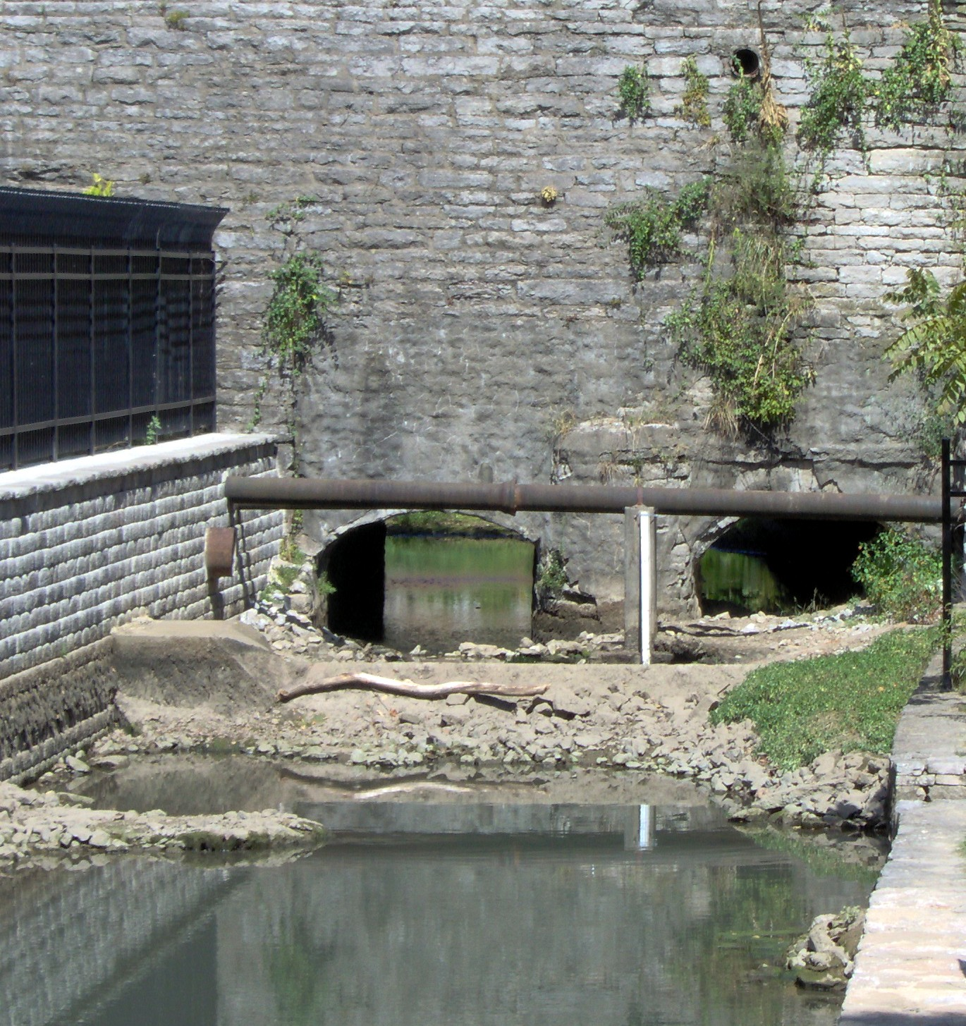 Royal Spring, the main source of water for Georgetown, Kentucky since earliest settlement as McClelland's Station in 1775.